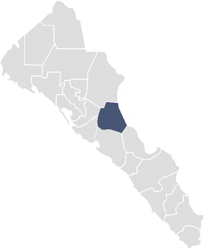 Map of the Fifth Federal Electoral District of the State of Sinaloa, México.